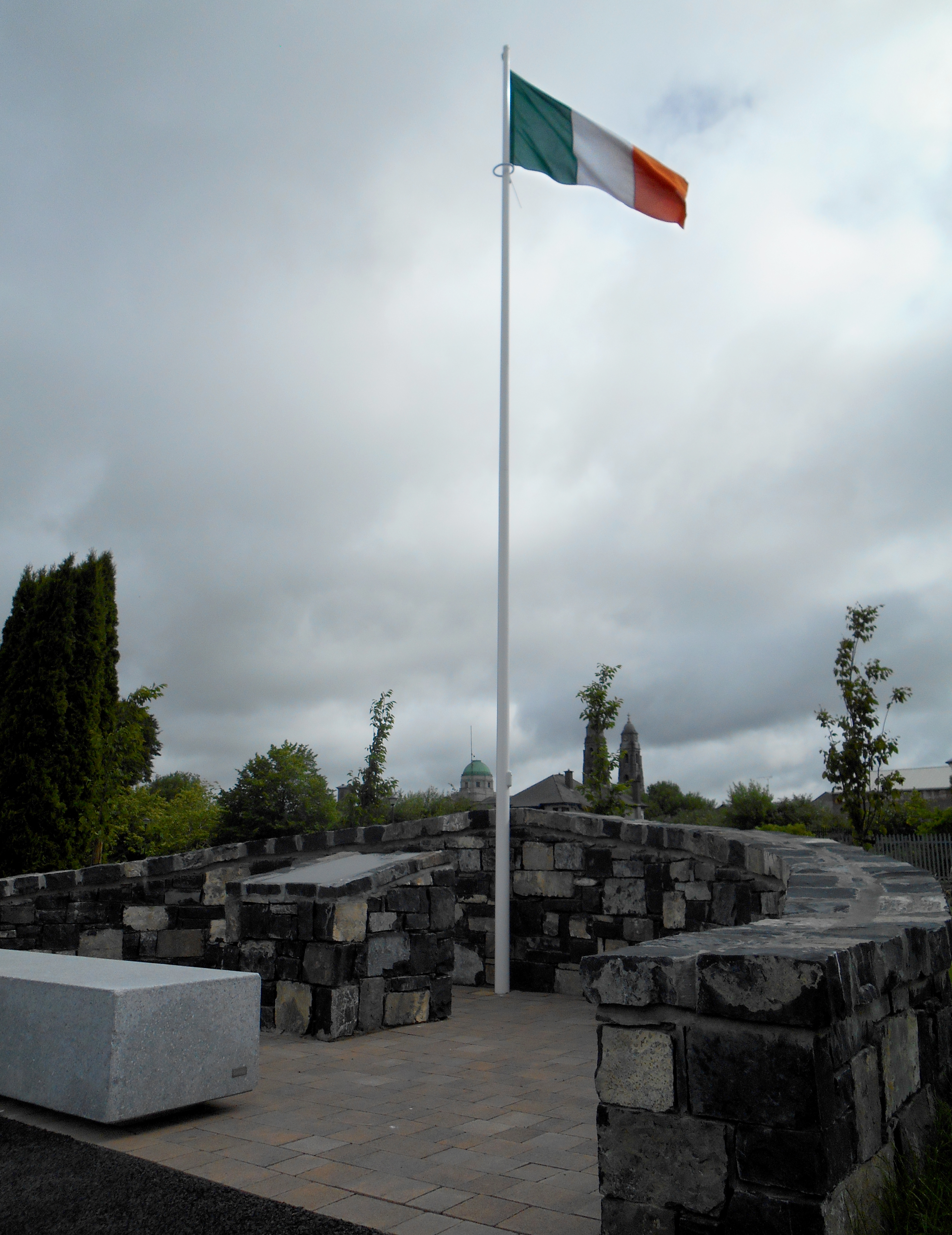 1916 Monument Centenary Mullingar to commemorate the Easter Rising one hundred years earlier.